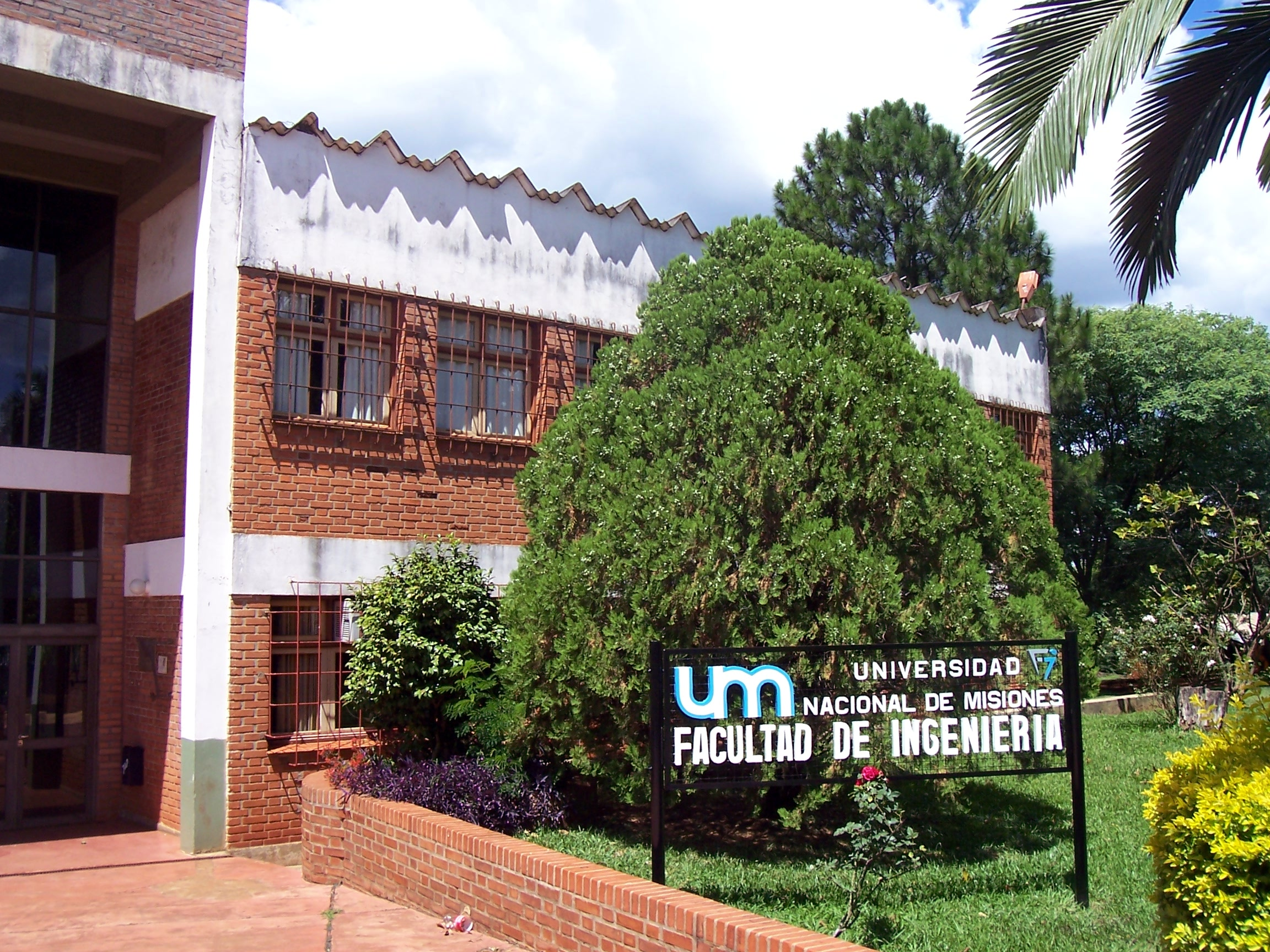 The Faculty of Engineering of the National University of Misiones (UNaM) in Oberá.